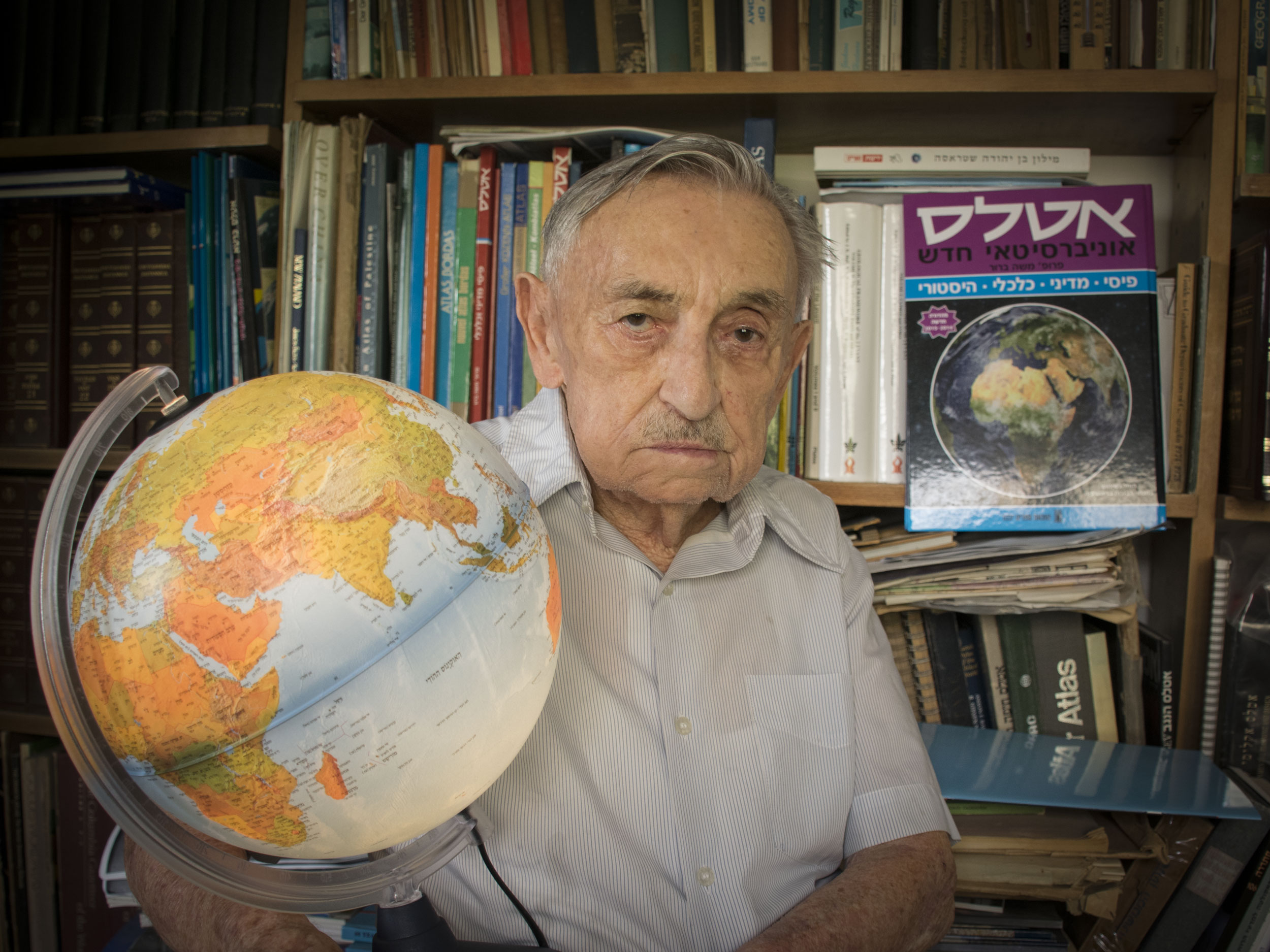 Professor Moshe Brawer